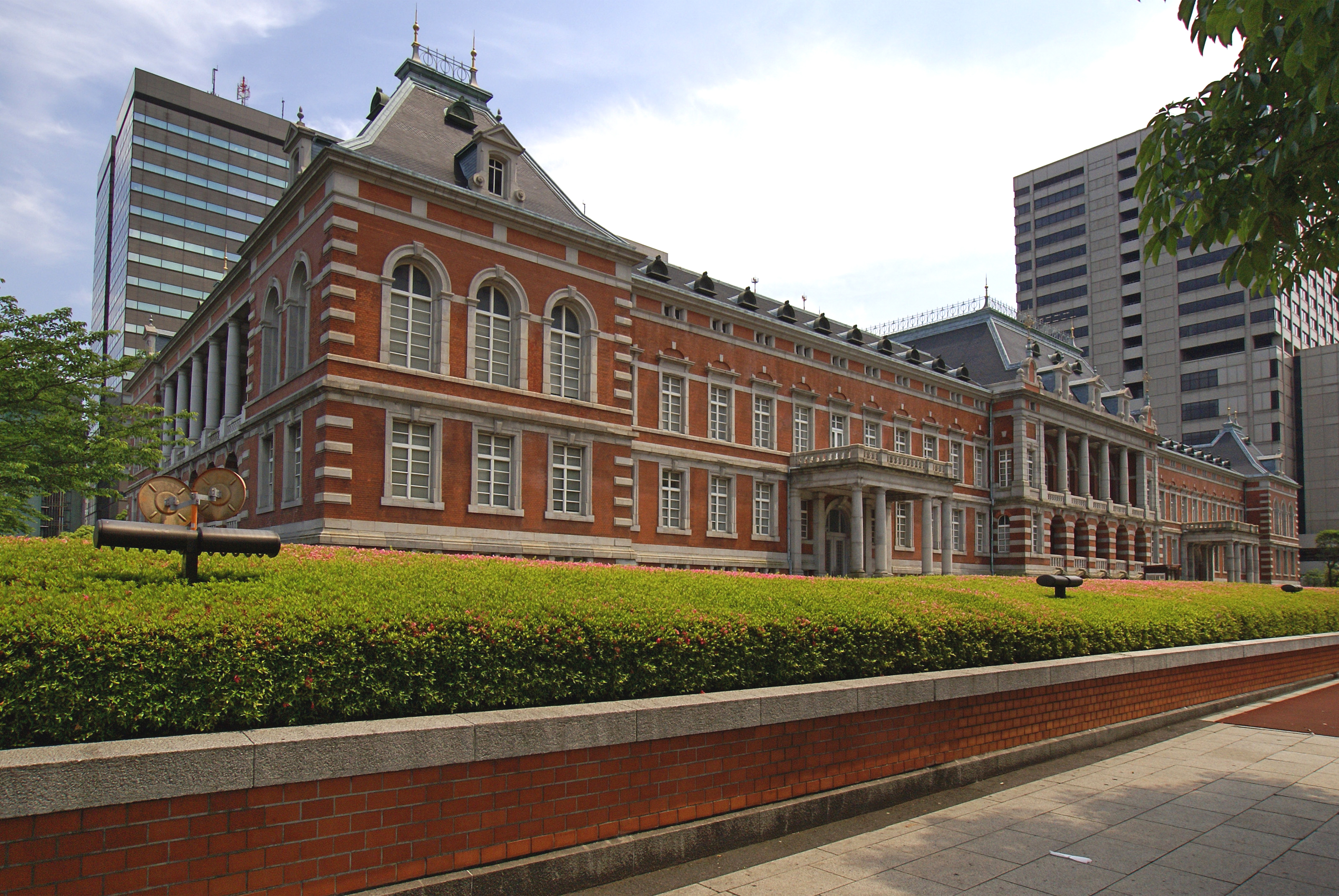 Ministry of Justice Older Administration Building in Chiyoda-ku, Tokyo, Japan